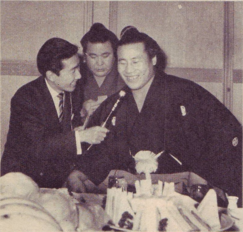 Sadanoyama Shinmatsu and Dewanishiki Tadao (center). taken in 1961.